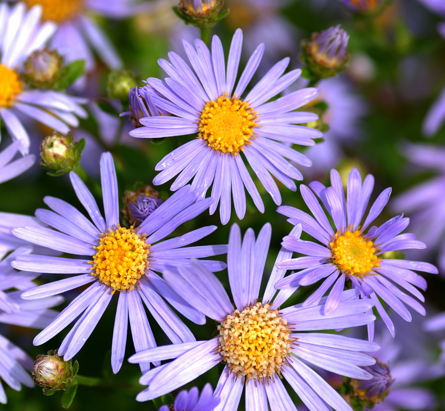 This image shows a European Michaelmas Daisy (Aster amellus)